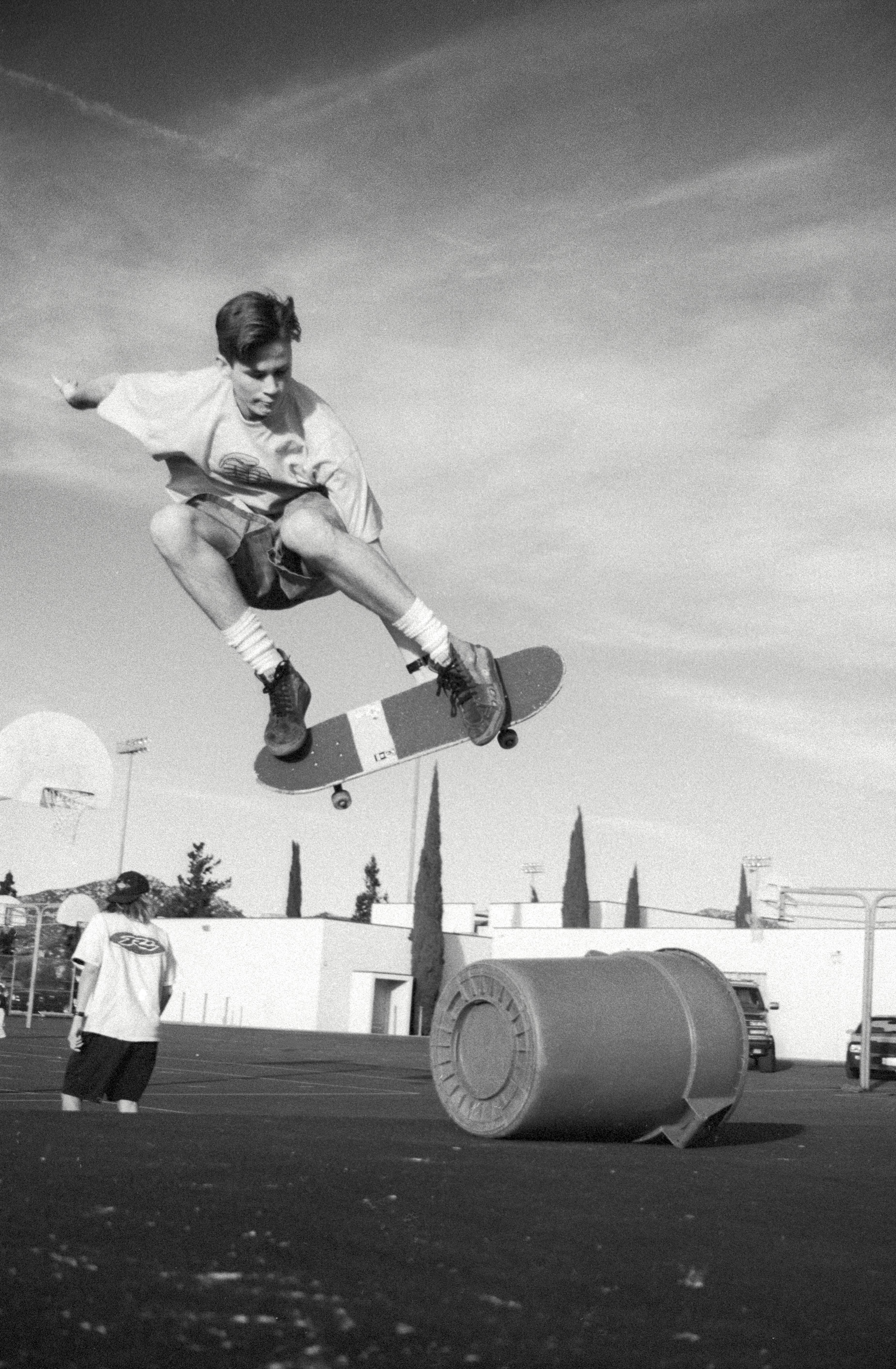 Tom Delonge method at Poway High